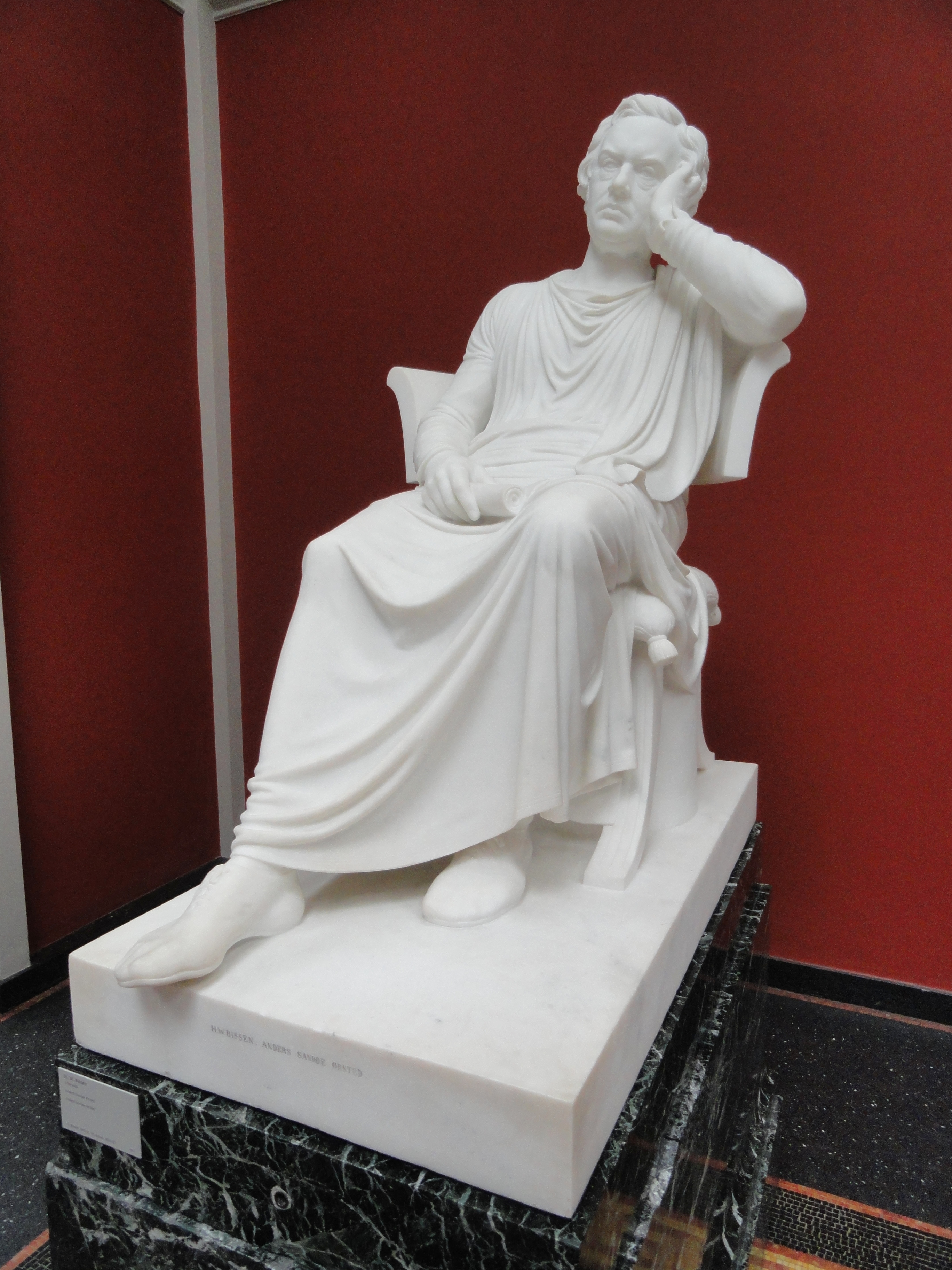 Exhibit in the Ny Carlsberg Glyptotek, Dantes Plads 7, Copenhagen, Denmark. The museum permitted photography without restriction. This artwork is now in the public domain because the artist died more than 70 years ago.